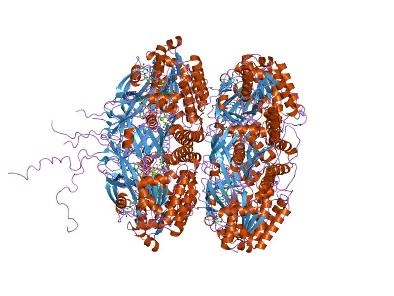 Cartoon representation of the molecular structure of protein registered with 2gbl code.